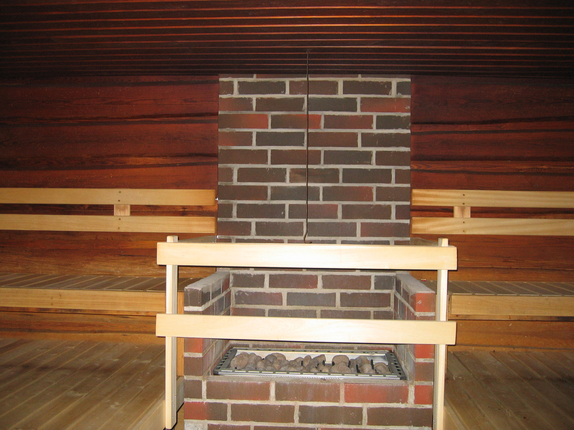 sauna's heat source